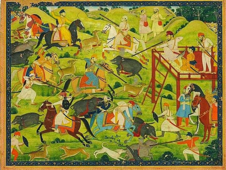 Sikhs hunting jungle animals